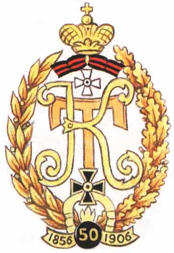 Badge of Tiflis 15-th Grenader Regiment